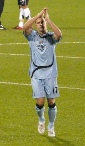 English football (soccer) player Alan Smith